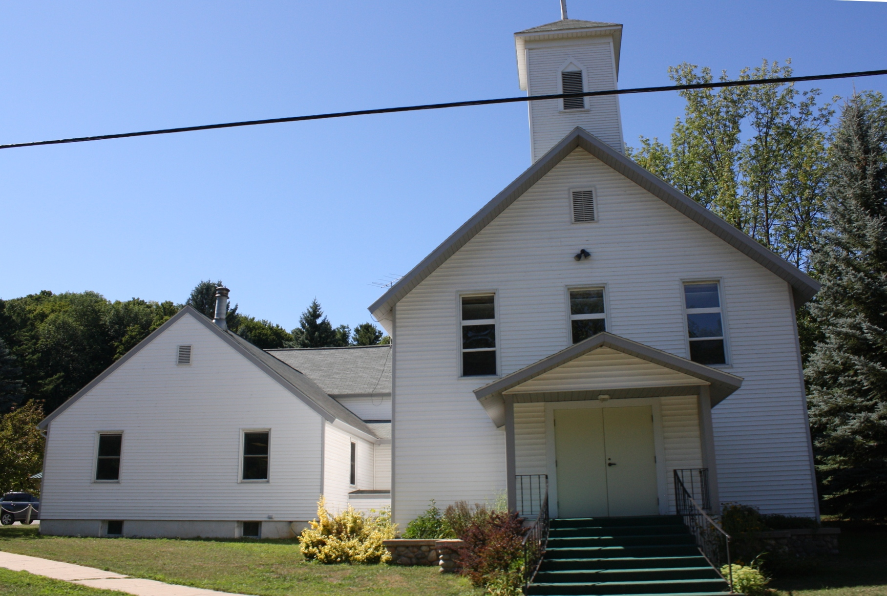 The Kateri Tekakwitha Church in Peshawbestown, Michigan.